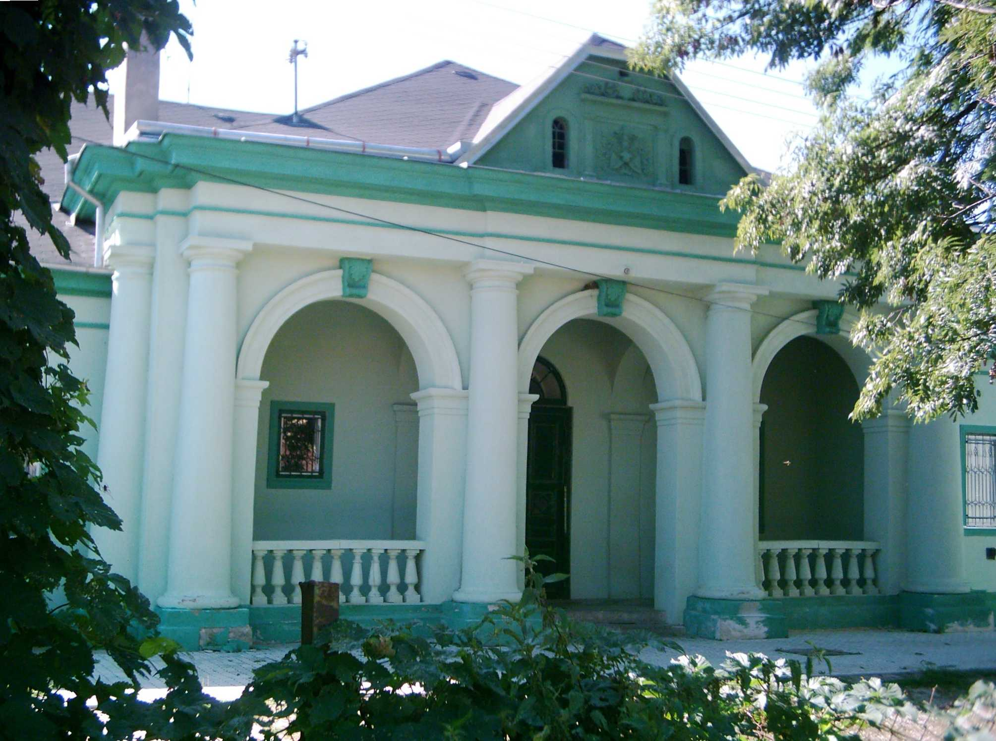 Ivánka curia - house of scauting in Plášťovce, Slovakia